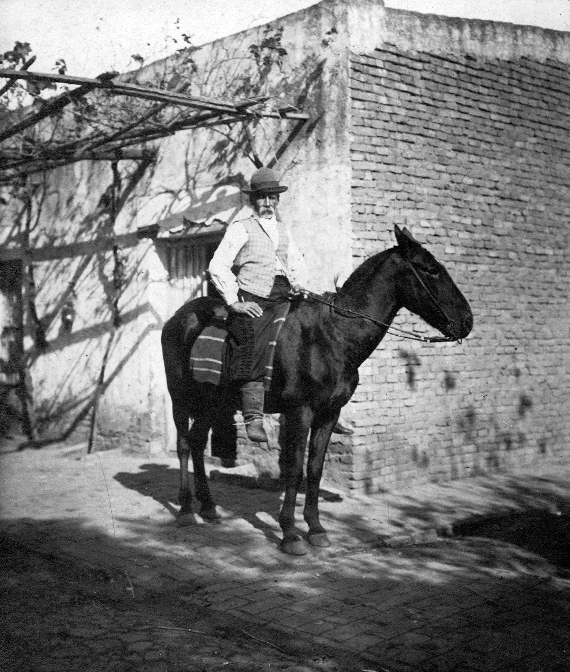 Argentine gaucho Guillermo Hoyos –nicknamed Black Ant– riding his preferred horse in San Nicolás, Buenos Aires Province.